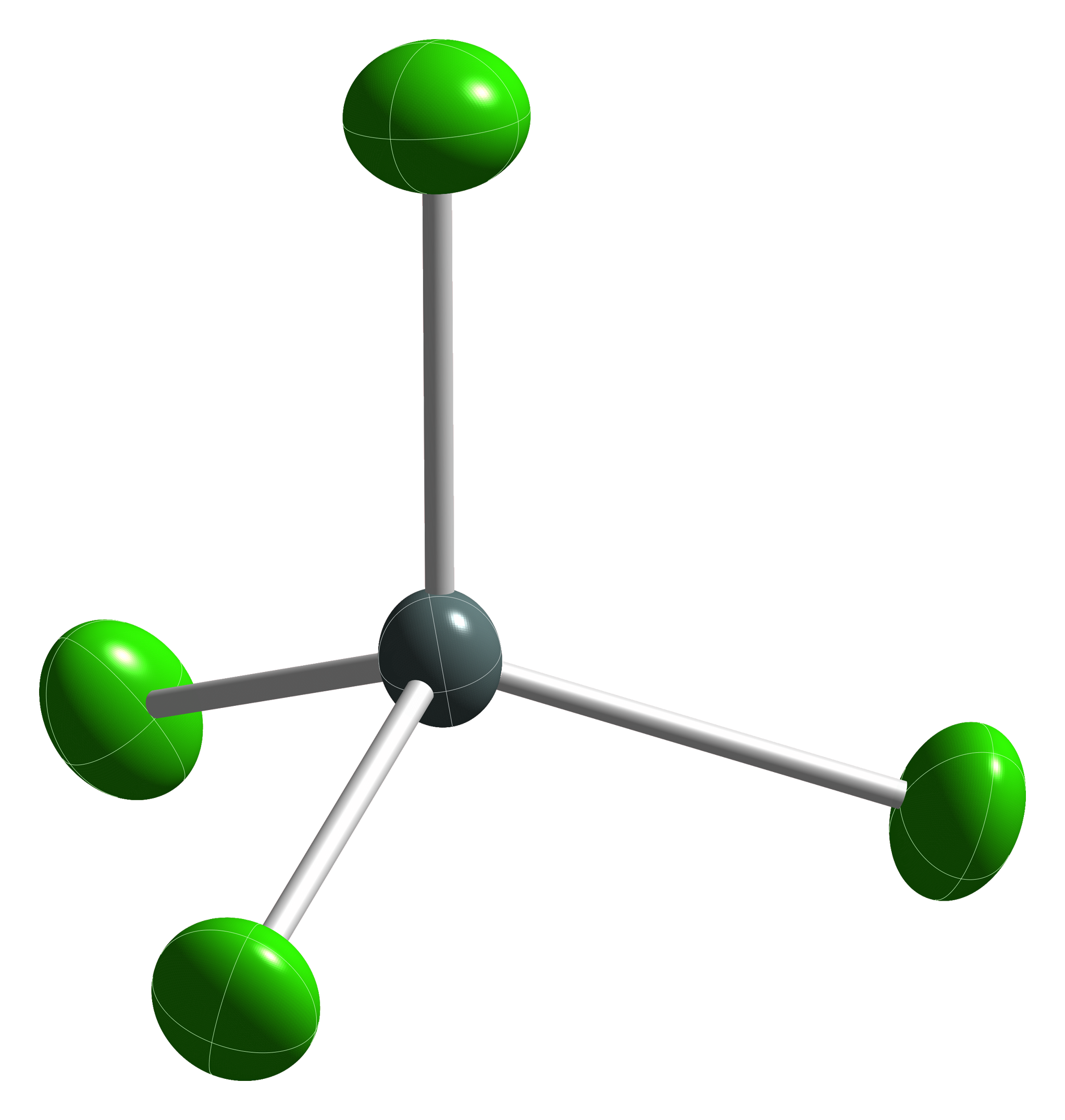 Thermal ellipsoid model of an SnCl4 molecule, as found in the crystal structure of tin tetrachloride, SnCl4. Colour code: Tin, Sn: blue-grey Chlorine, Cl: green Crystal structure from Z. Anorg. Allg. Chem. (2000) 626, 925-929. Image generated in CrystalMaker 8.2.